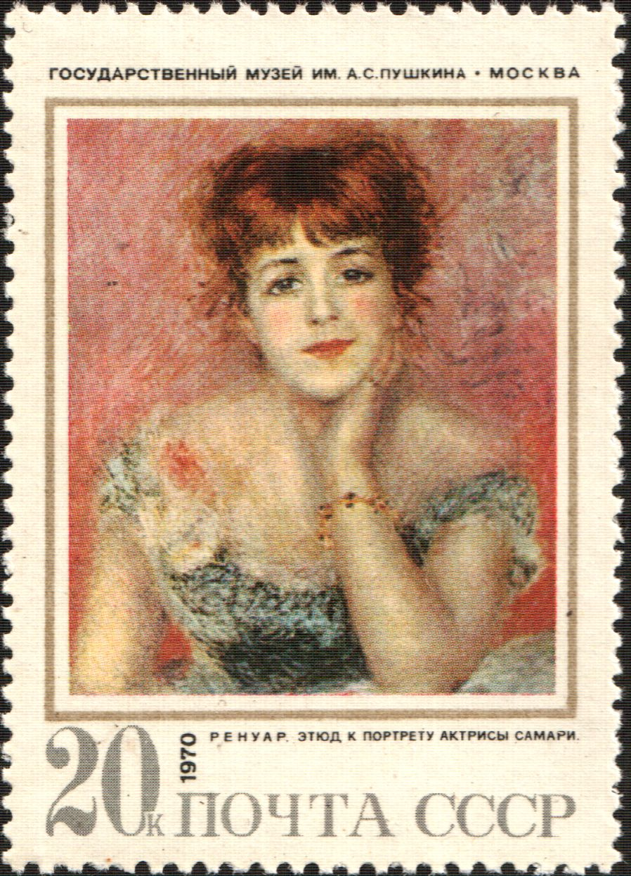 USSR stamp: The Actress Jeane Samary (Pierre-Auguste Renoir). Series: Foreign Paintings in the Soviet Union Museums